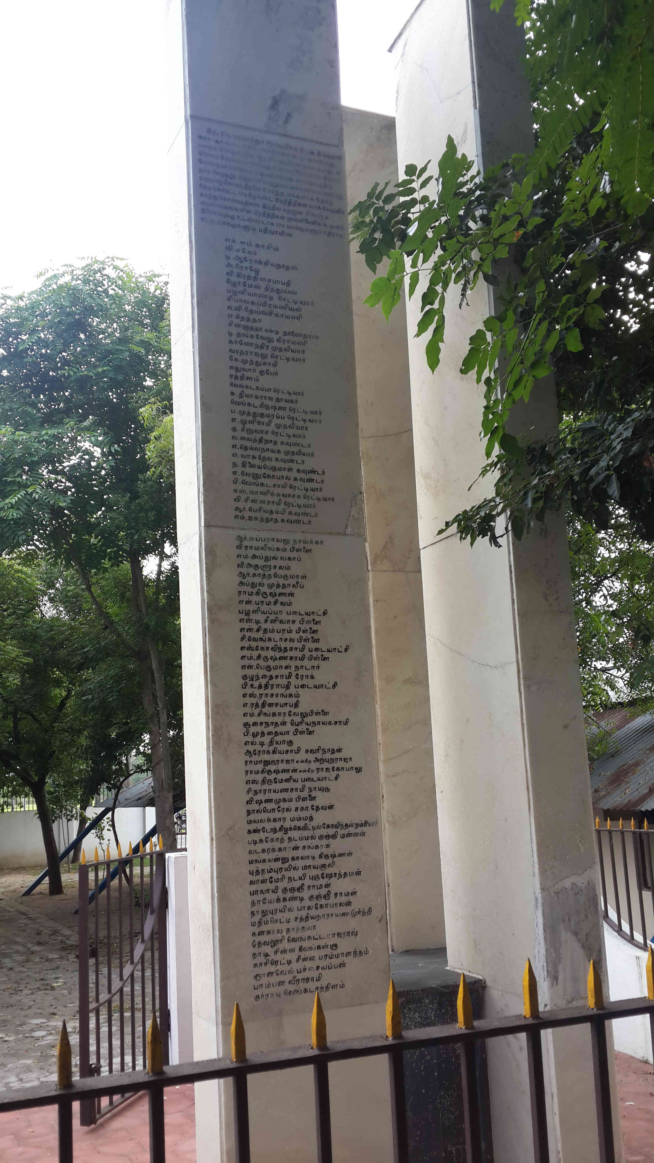 This Monument is located in Kizhur Village in Pondicherry, India. It lists the 178 names of all those people representatives who participated and voted in the Referendum which ceded Pondicherry from French to India on 18th October 1954